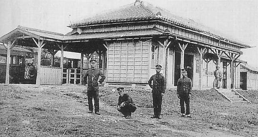 Itoman Station of Okinawa Prefectural Railways